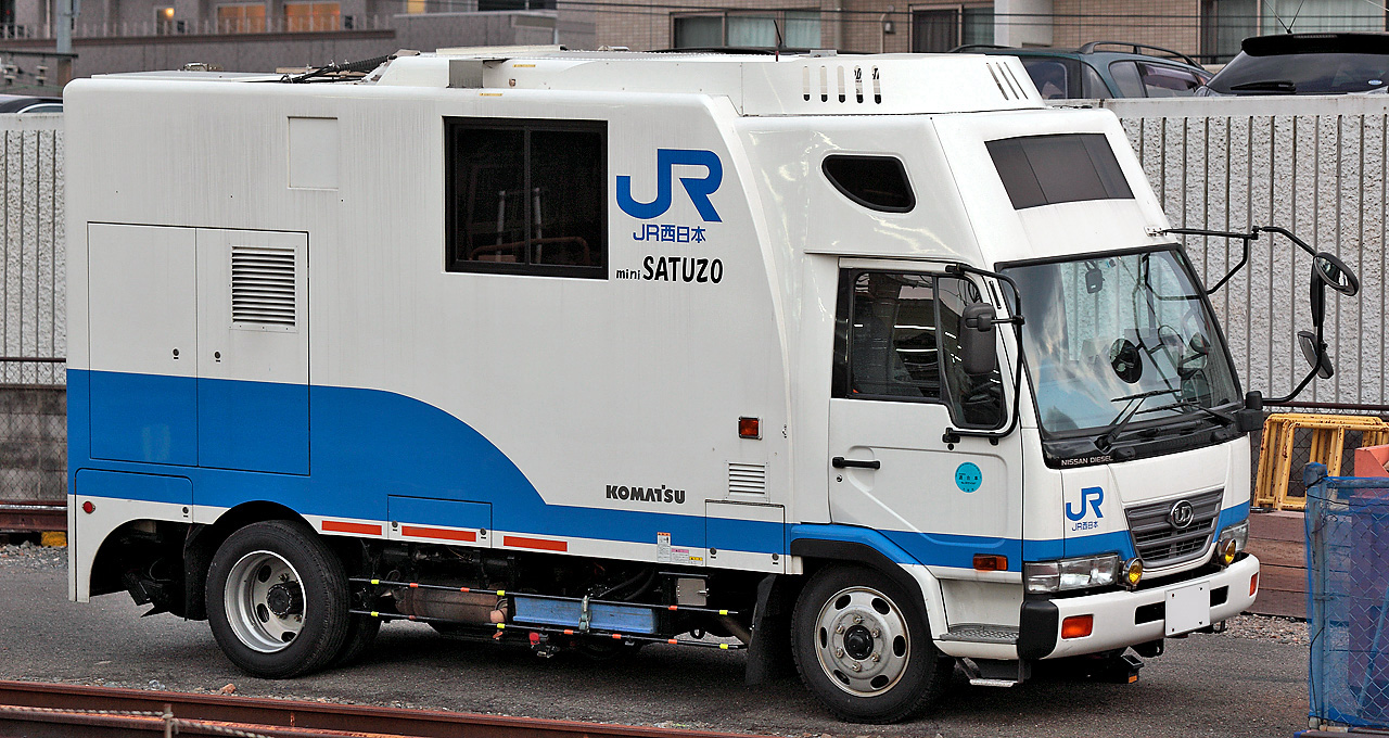 JR West's laser railroad tunnel wall inspection system, mini SATUZO at Yamashina Sta.